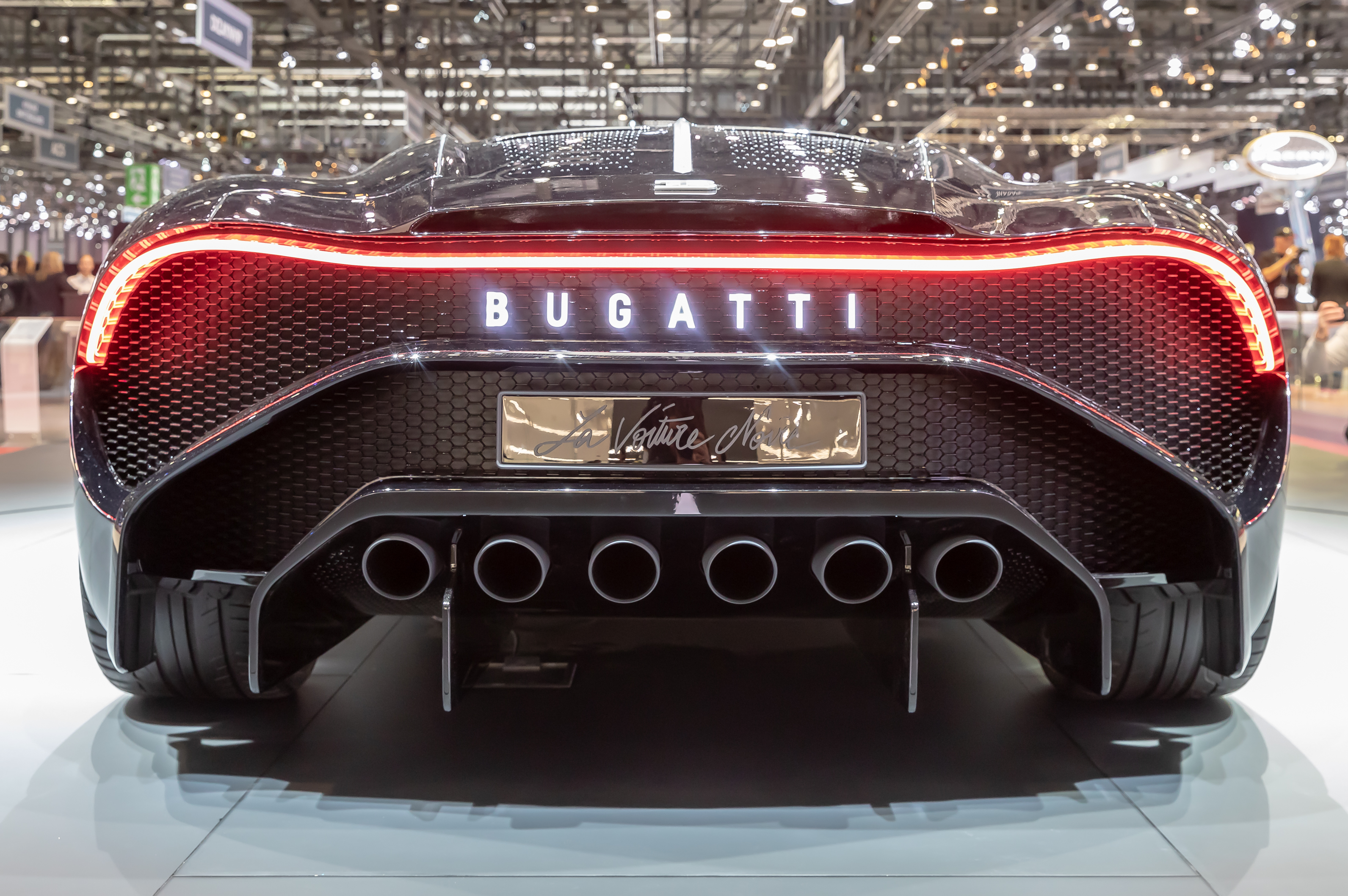 Bugatti La Voiture Noire at Geneva International Motor Show 2019, Le Grand-Saconnex